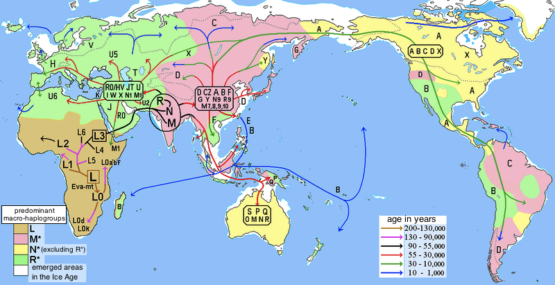 This is a map that has been translated from Spanish to English. The description of the original map was "Hypothesized map of human migration based on mitochondrial DNA."